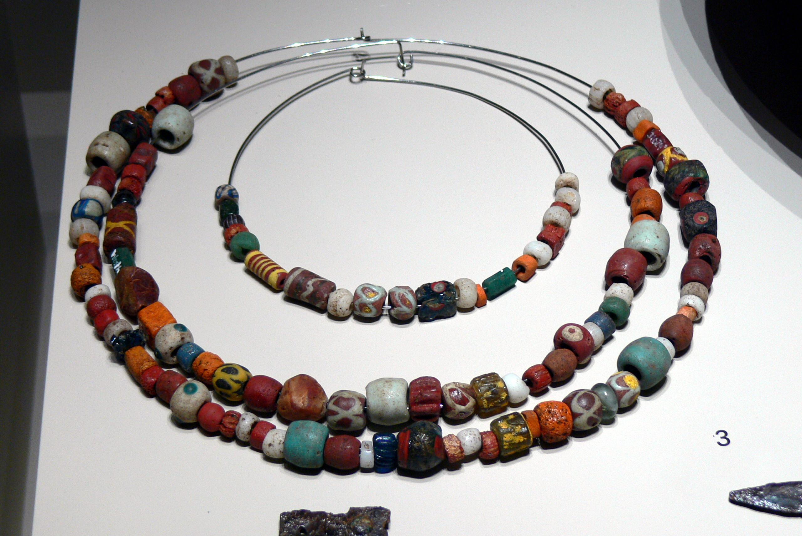 German National Museum ( Nuremberg / Germany ). Bajuvarian bead necklace, 7th century A.D., from Westheim.